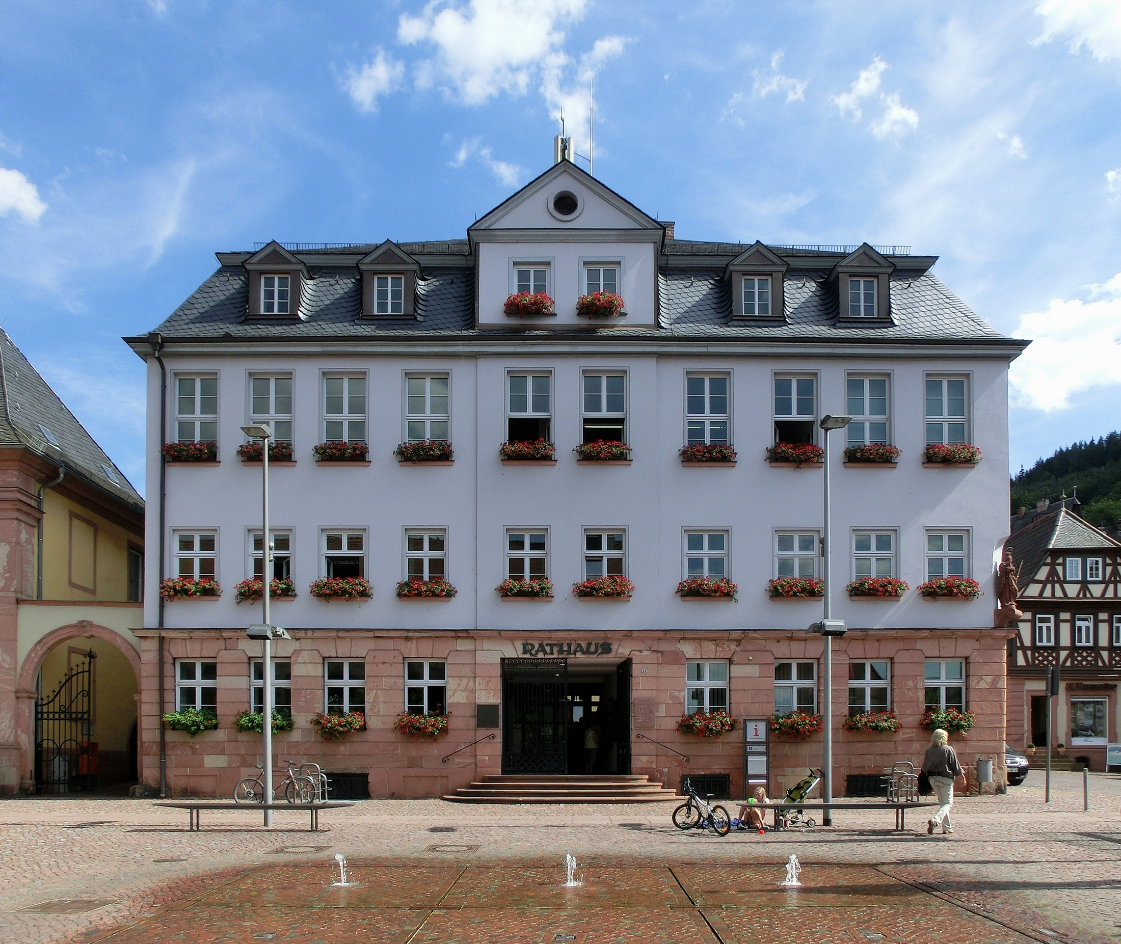 The town hall of Miltenberg, Lower Franconia.